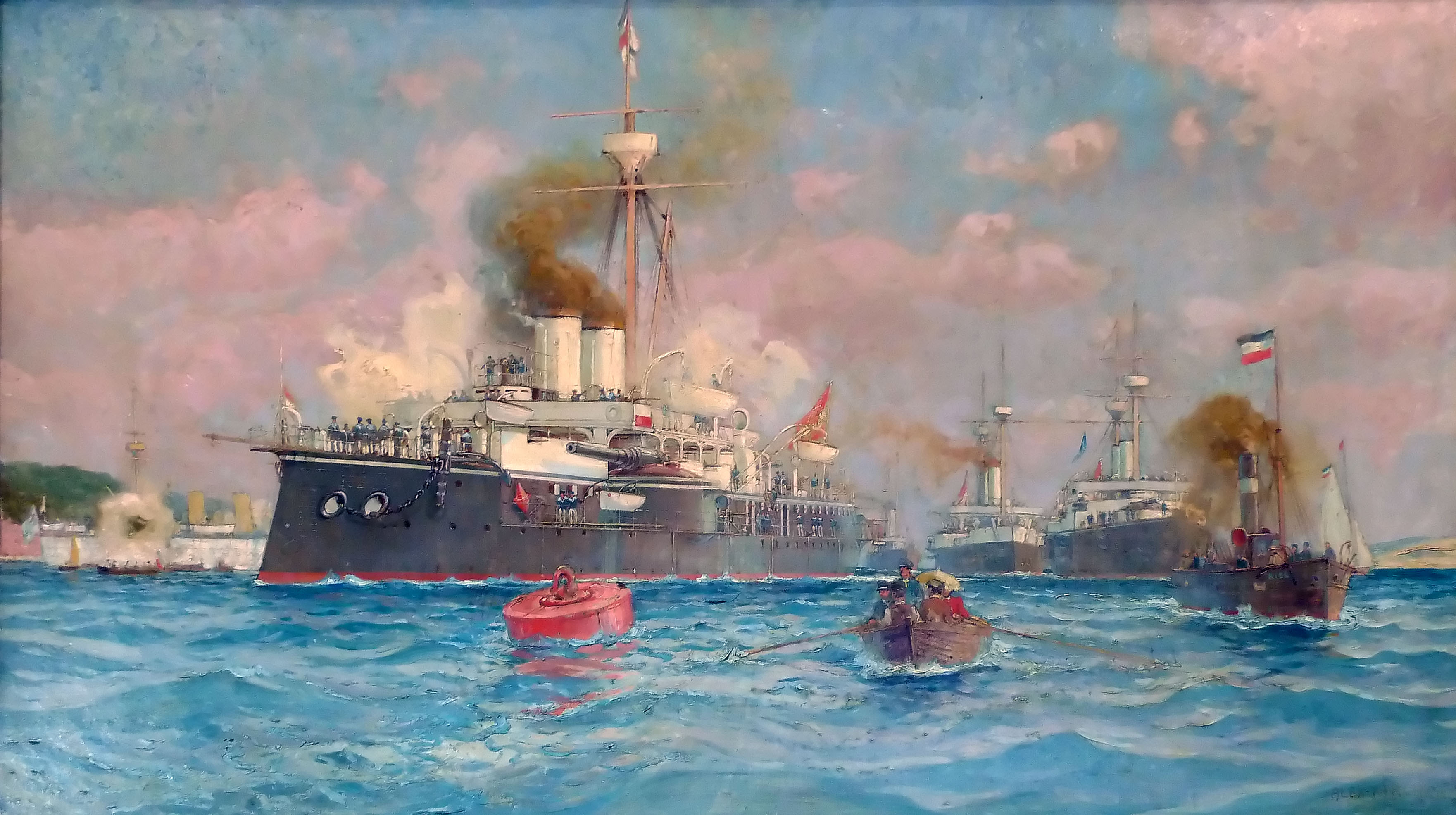 Squadron drill of SMS Kronprinz Erzherzog Rudolf, SMS Kronprinzessin Erzherzogin Stephanie, SMS Kaiser Franz Joseph I and SMS Tiger at Kiel, oil on canvas.